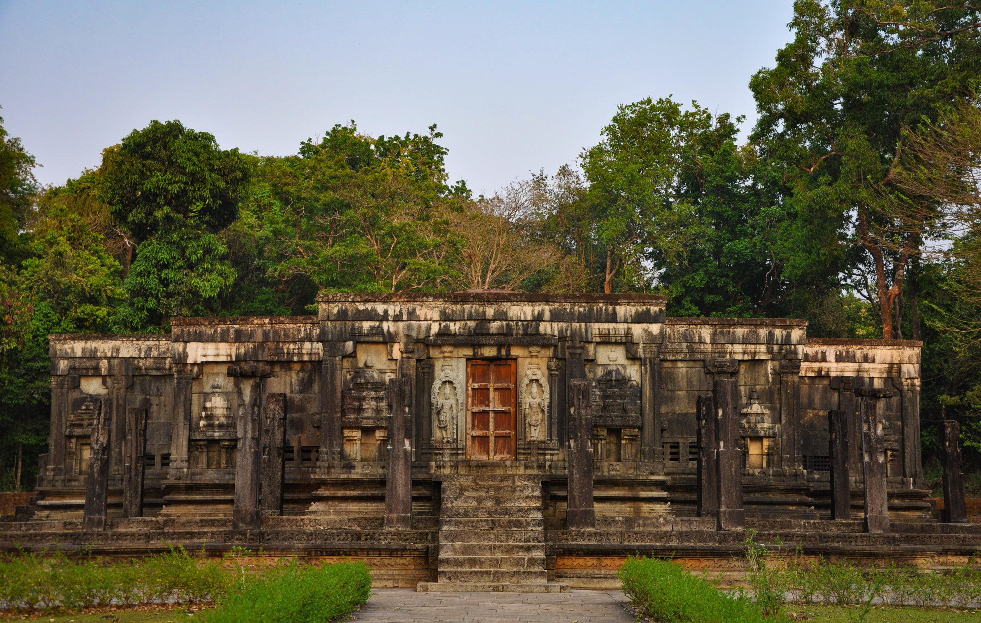 Chaturmukha basadi is symmetrical Jain temple situated in Gerusoppa, Honnavar Taluk, Uttara Kannada district. All four entrances to the temple look alike & are identical same as the idol inside the temple. The picture was taken from front side.